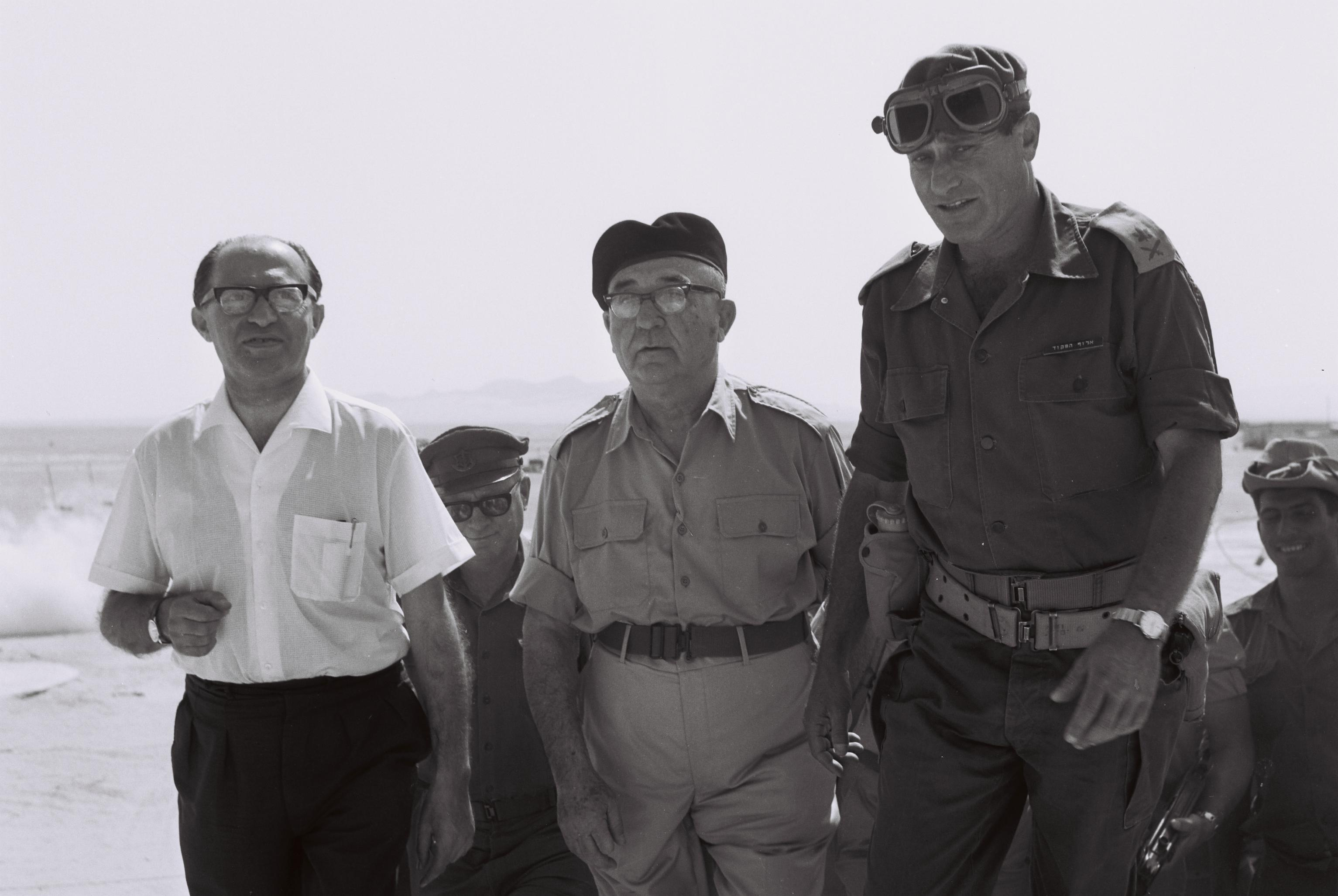 Prime Minister Levi Eshkol (center), accompanied by Min. Menachem Begin (left) and O.C. Southern Commander Aluf Gavish, visits troops in Sinai.